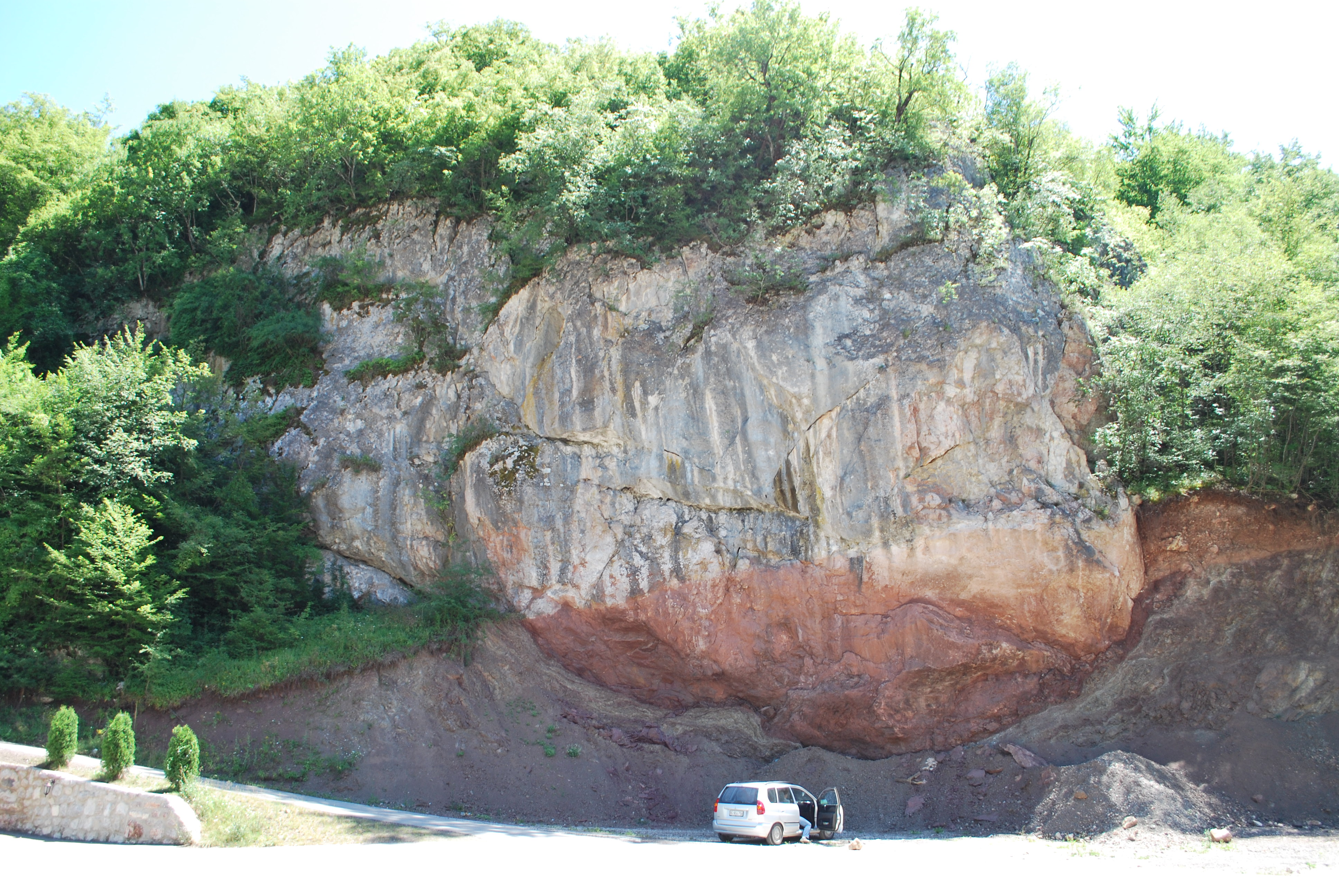 Carbonate olistolite in the ophiolitic melange, Western Vardar Ophiolitic Unit, Serbia